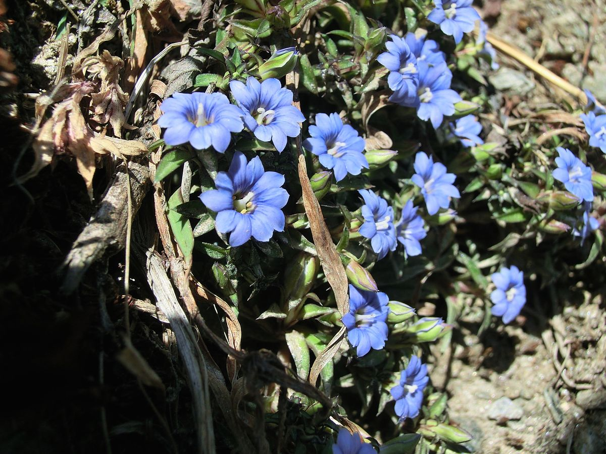 Gentiana carinata. Nepal, Annapurna Conservation Area (NW Pokhara), between Tadapani and Chhomorung.